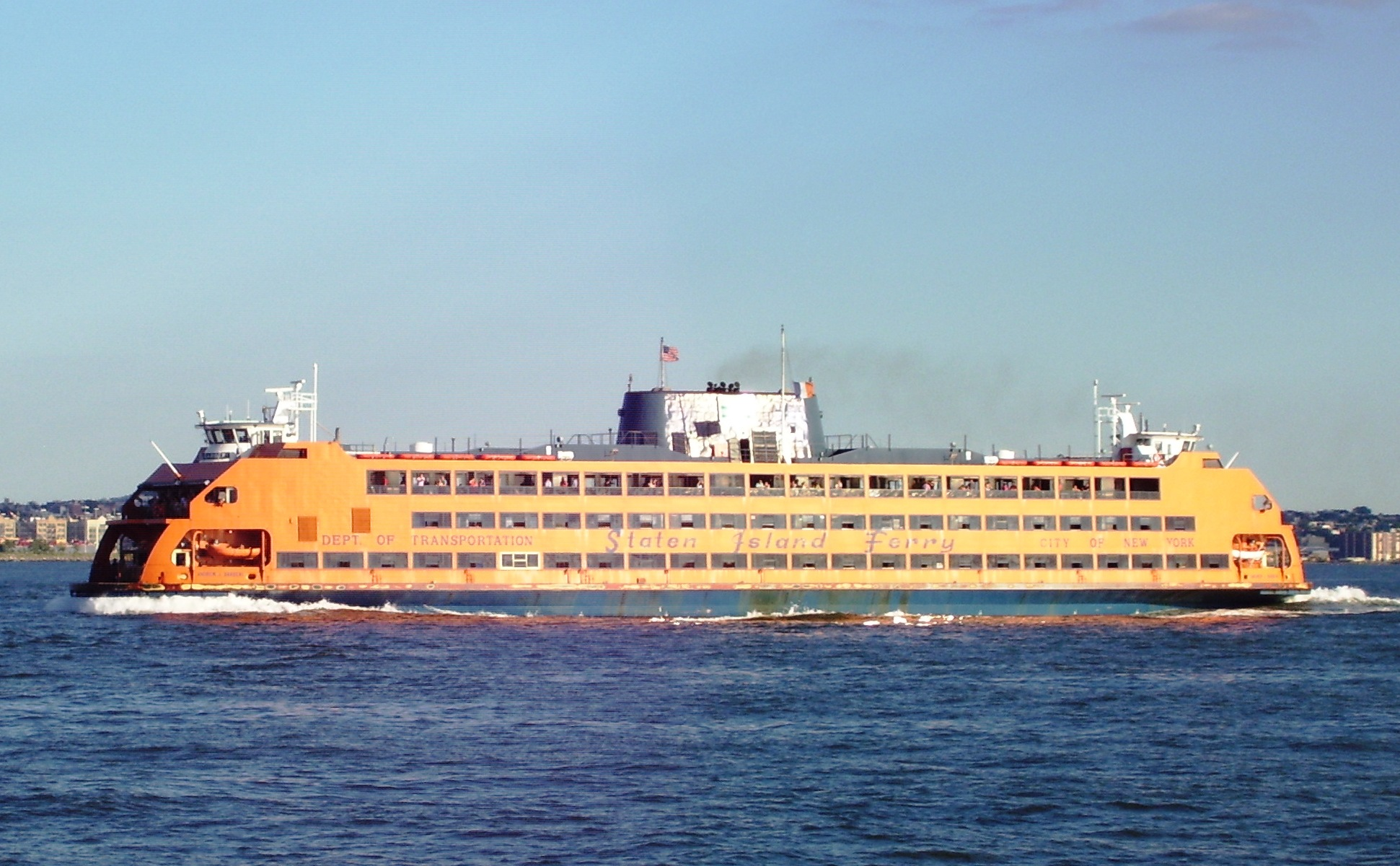 A Staten Island Ferry boat traveling from Staten Island to Manhattan, as seen from a Staten Island Ferry boat traveling from Manhattan to Staten Island.